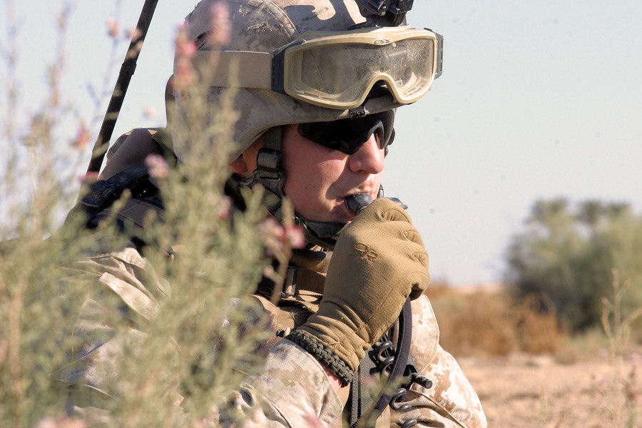 U.S. Marine Corps Lance Cpl. Derek Mellor takes a sip of water from his hydration pack during a break in joint patrol with Iraqi army soldiers in Habbaniyah, Iraq. Mellor is a radio operator with Lima Company, 3rd Battalion, 2nd Marine Regiment, Regimental Combat Team 5.